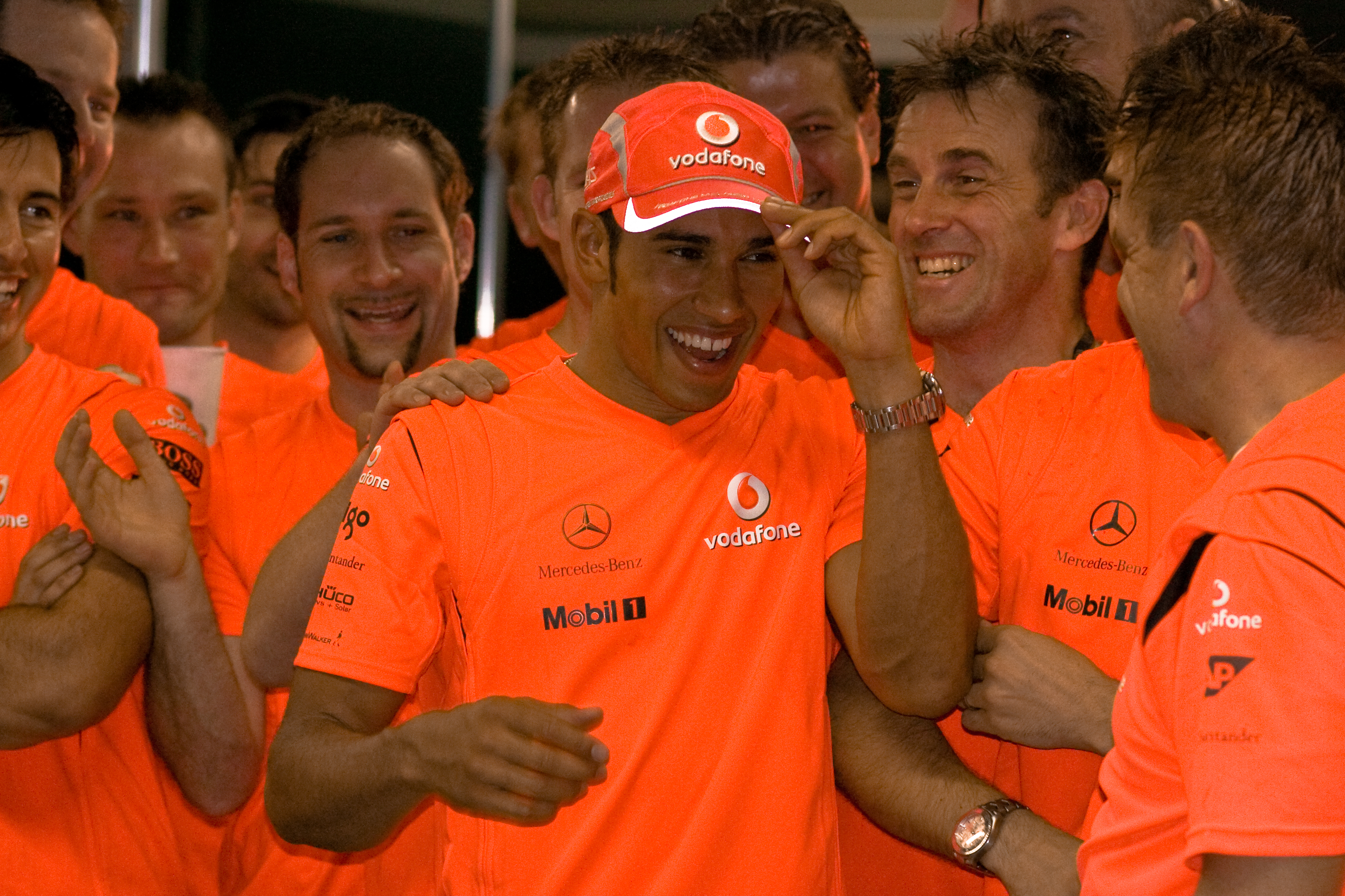 Lewis Hamilton / F1 / World Champion 2008 Brazilian GP